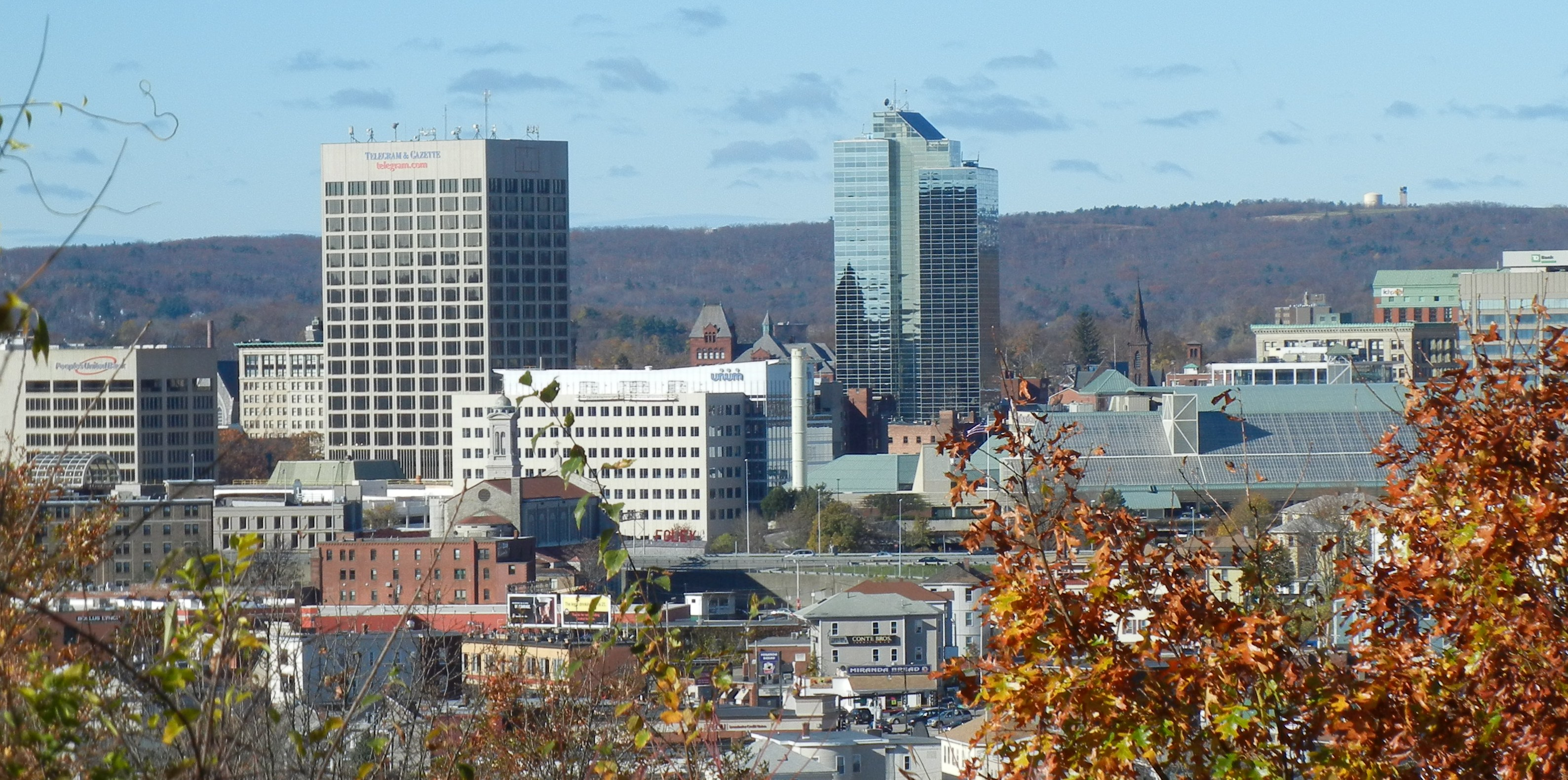 Downtown Worcester, Massachusetts from Norfolk Street on November 4, 2012